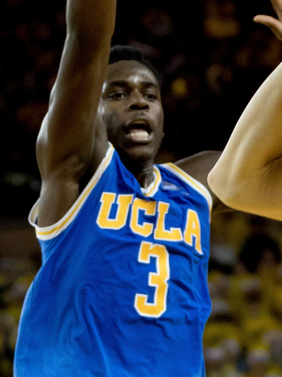 Aaron Holiday of UCLA